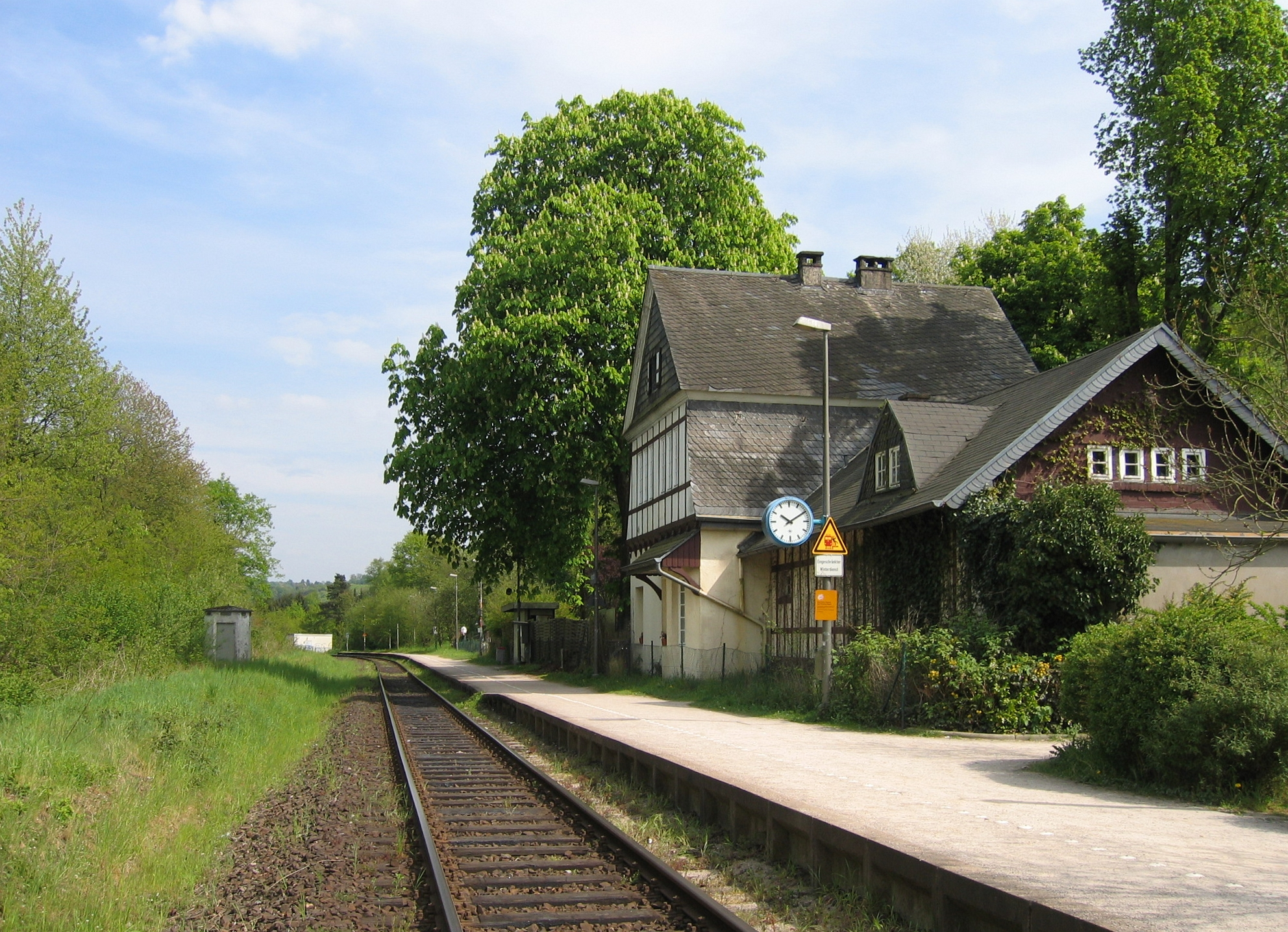 Bahnhof Honrath (Lohmar)